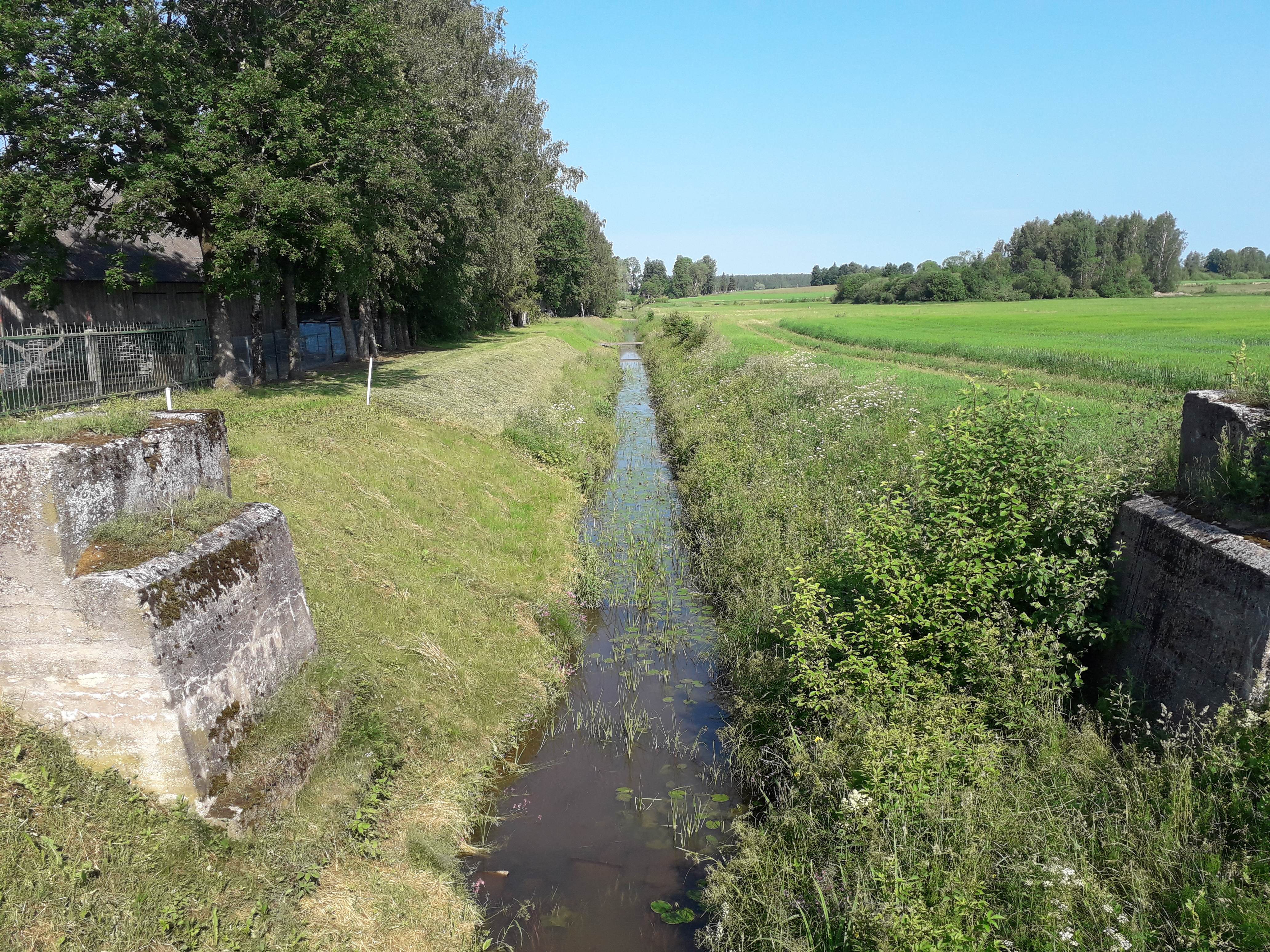 Lėvuo River by Sriubiškiai